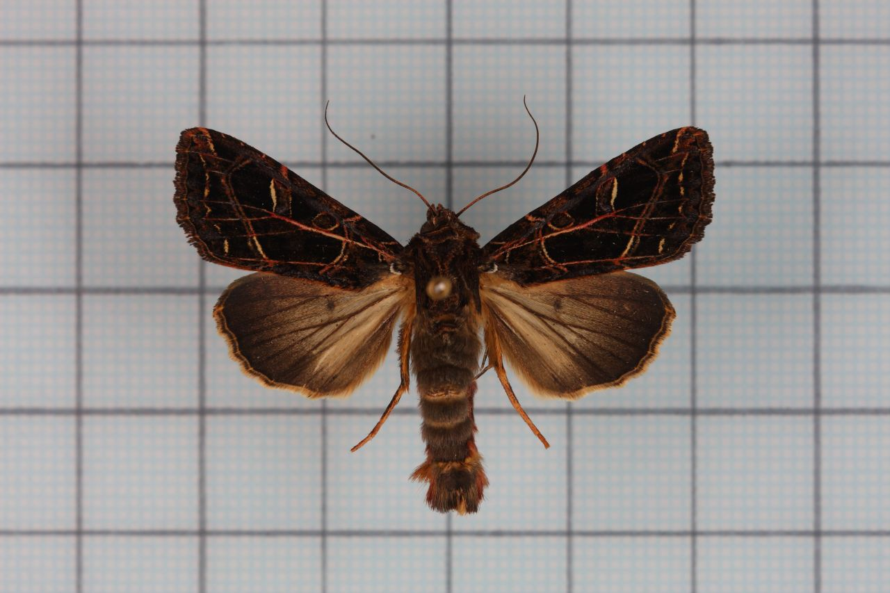 Dictyestra dissectus (Walker, 1865) 角網夜蛾 鞍1:P.107,Pl.:27-15 male